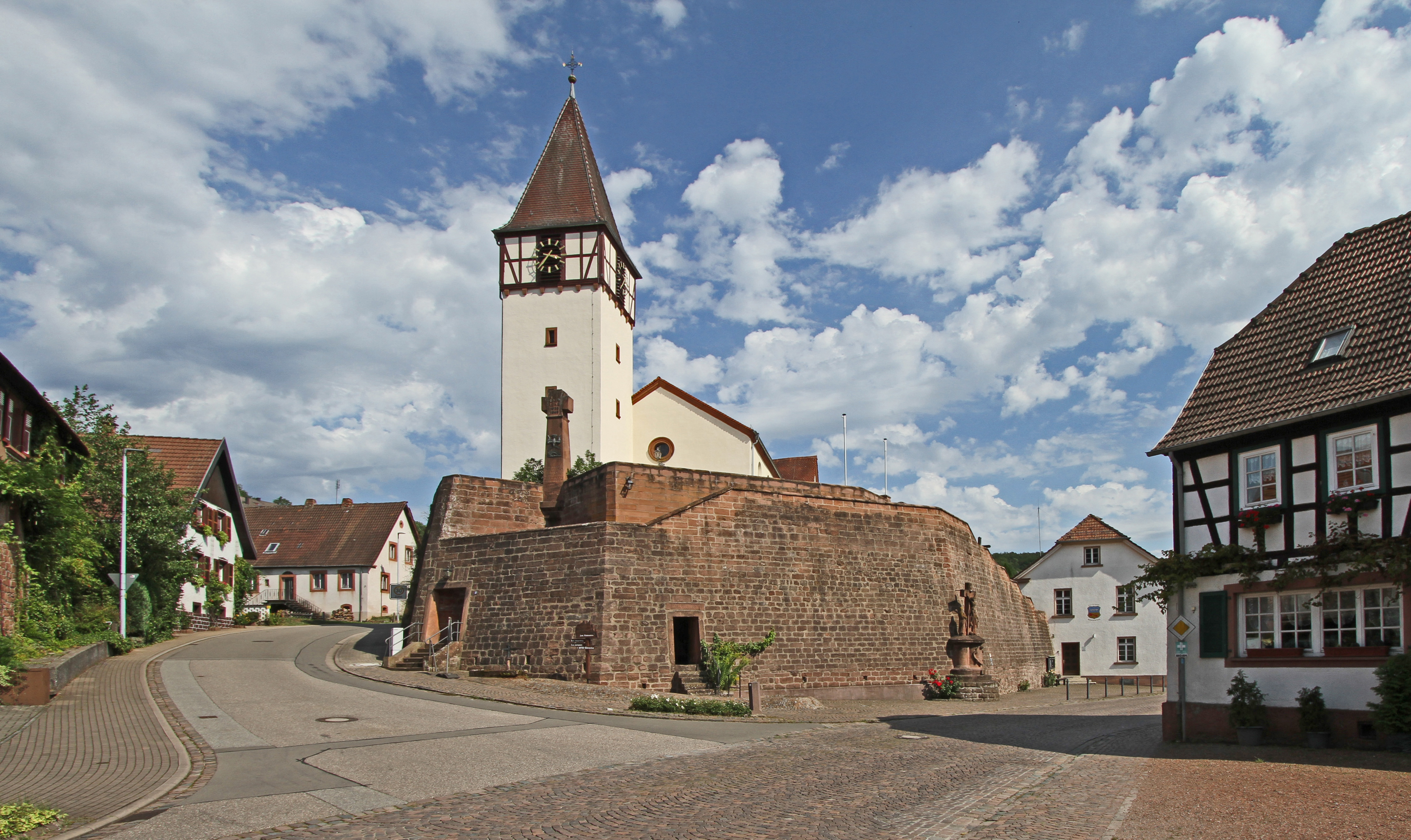 Church of Saints Peter and Paul in Bundenthal.